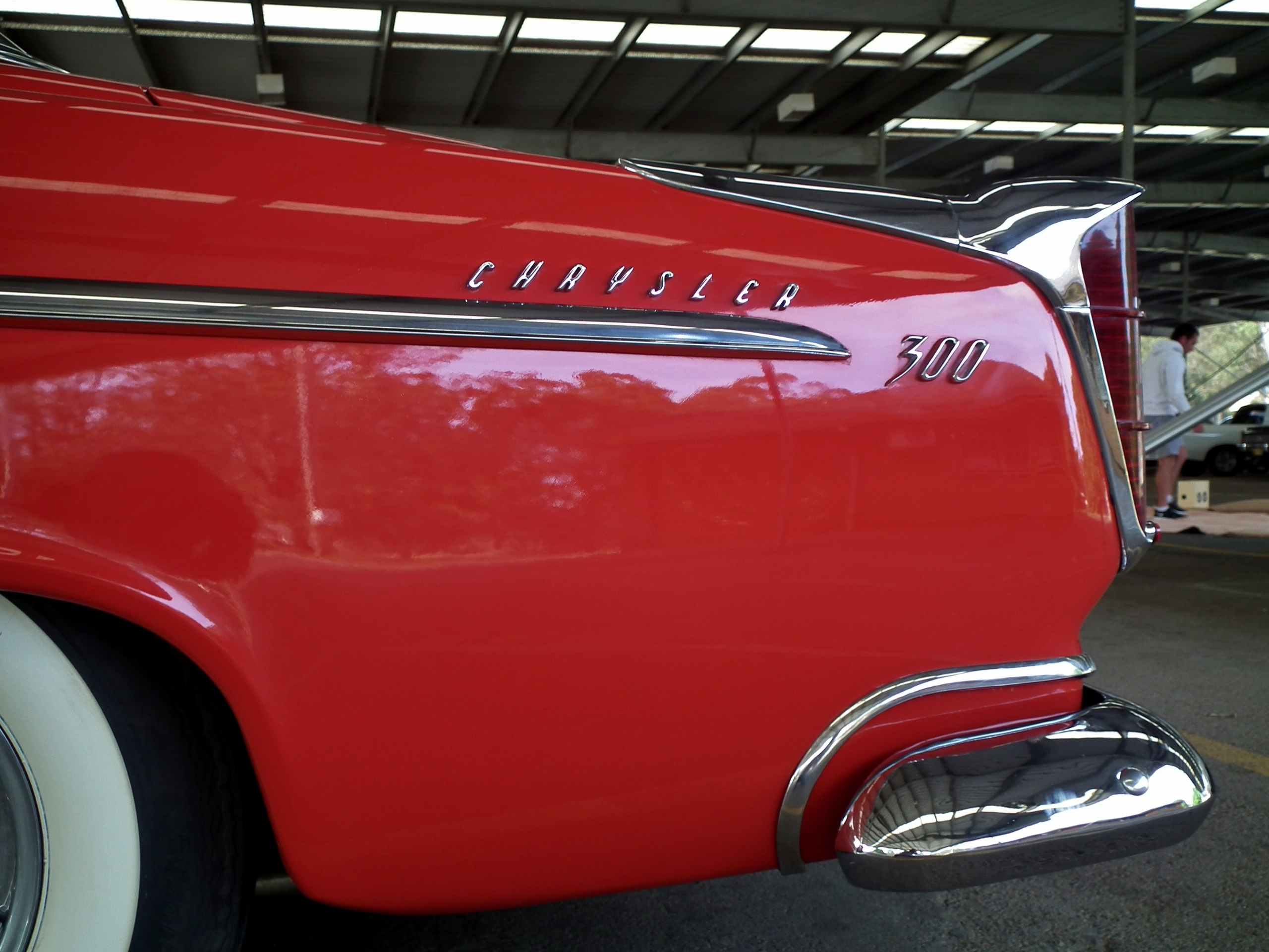 1955 Chrysler C-300 coupe. Taken at the 2012 New South Wales All Chrysler Day, held at Fairfield Showground, Prairiewood, Sydney.